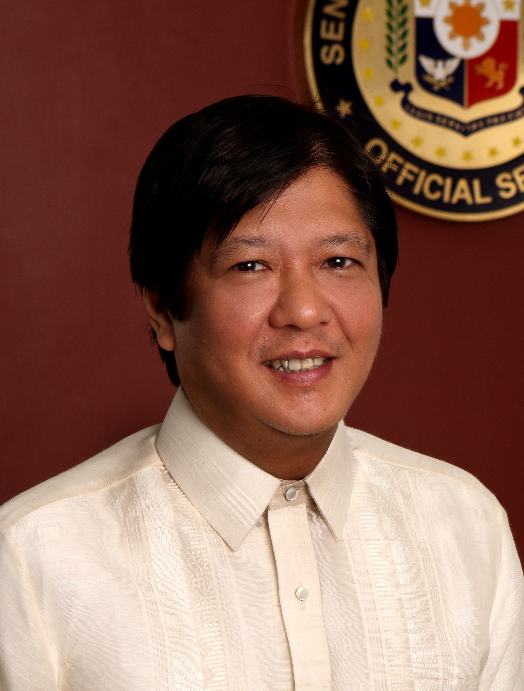 Photo of Senator Ferdinand "Bongbong" R. Marcos, Jr.